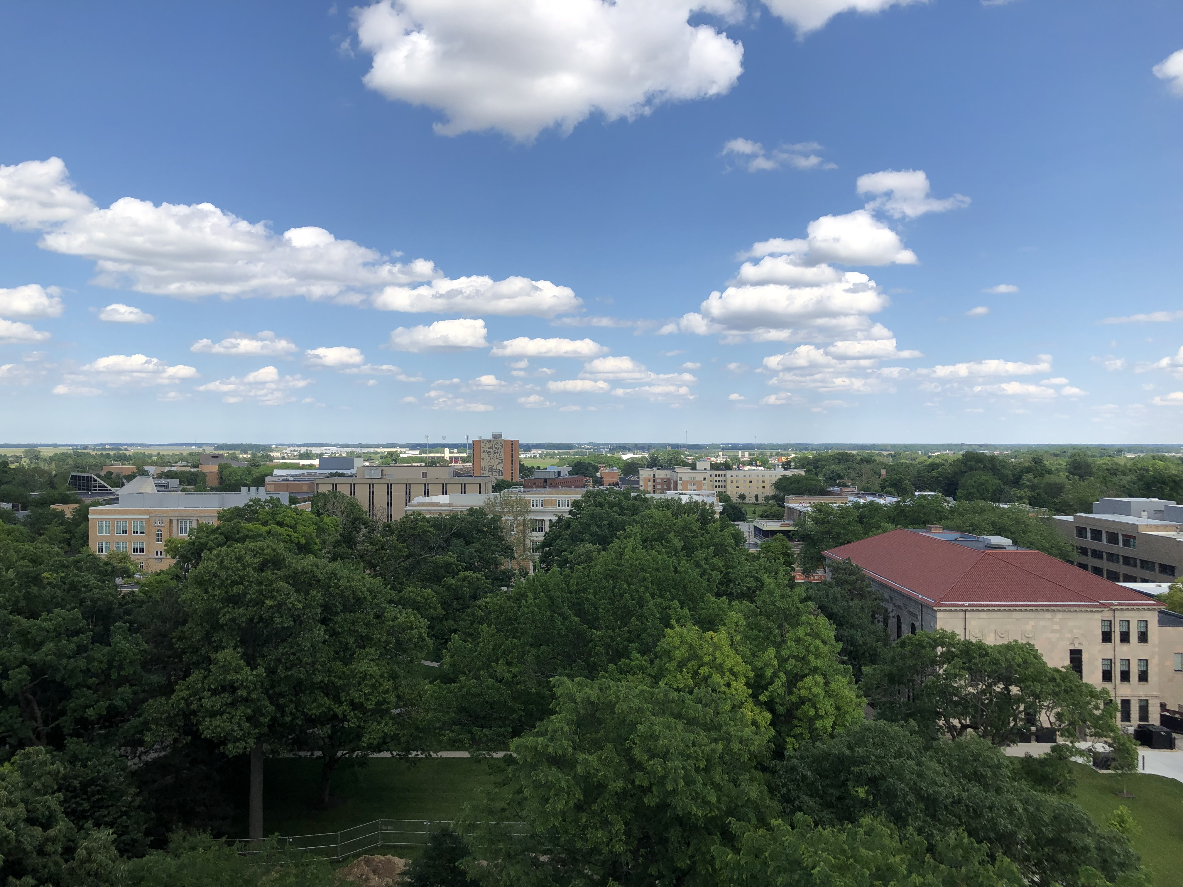 A view from the 9th floor of the Admin Building of BGSU. This building is planned for demolition, so this view will be difficult to recreate at a later date.